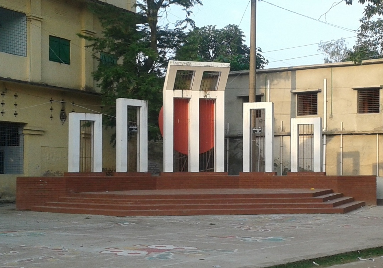 Naogaon Government College Shahid Minar